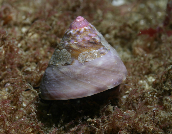 A dusky turban snail Tegula pulligo on a filamentous red alga. The shell of this species has a light purple tinge and a checkered pattern with white and brown.